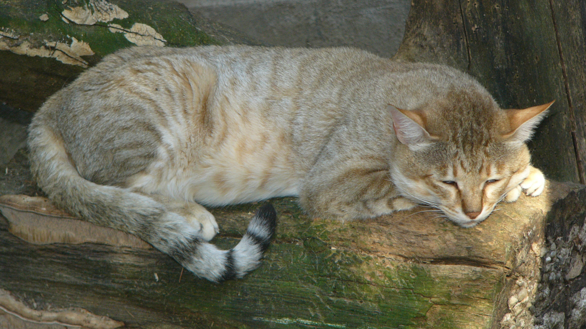 Felis silvestris gordoni in Zoo Olomouc, the Czech Republic.